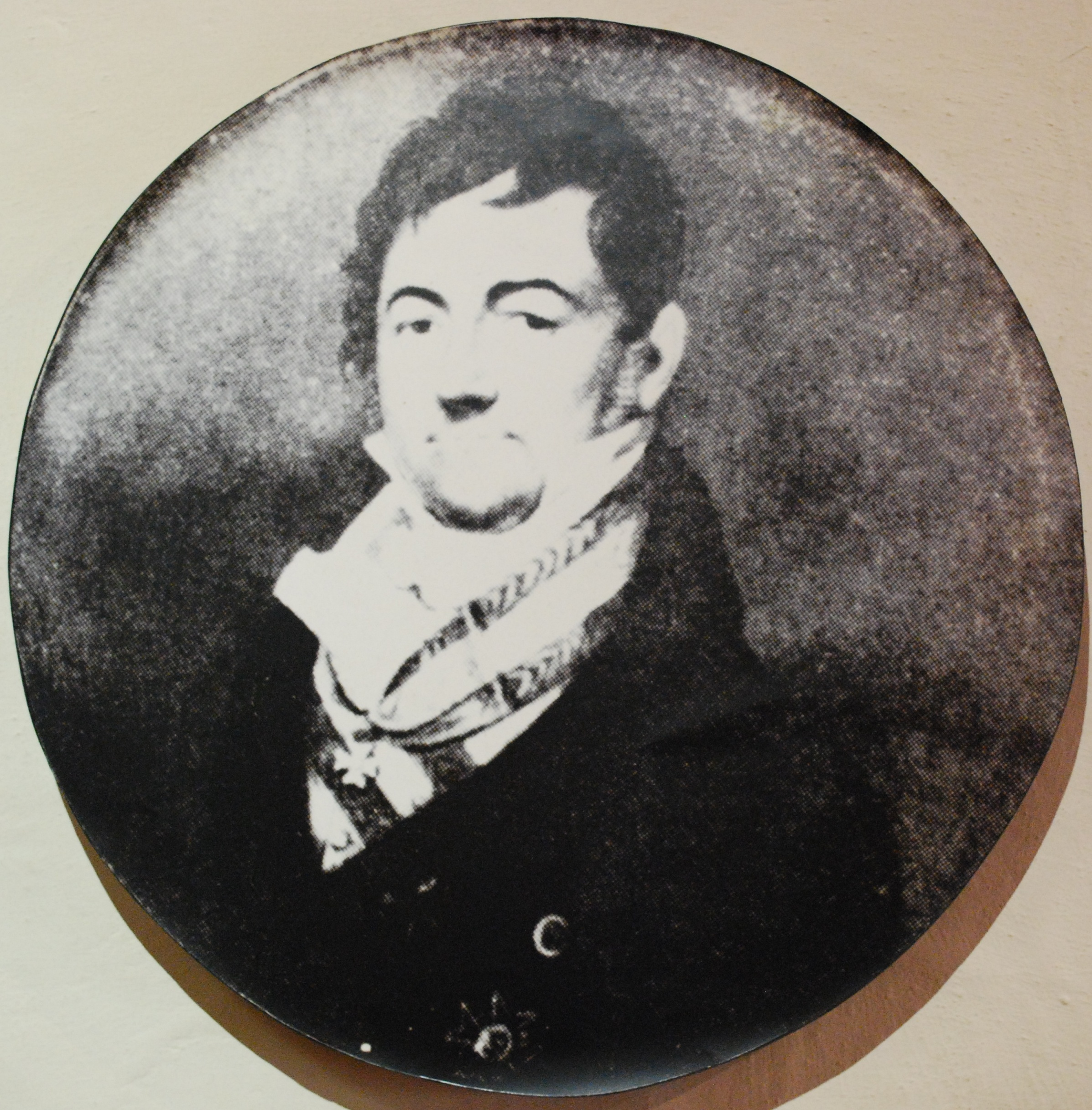 Portrait of Luis de Onís on display at the Museo Nacional de las Intervenciones (ex Monastery of Churubusco) in Coyoacan borough, Mexico City. (Public domain as Onis died in 1827)